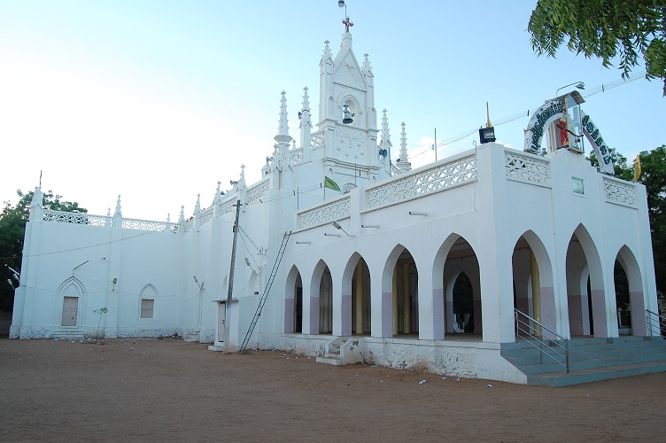 The church in singamparai venerated to St. Paul the Apostle